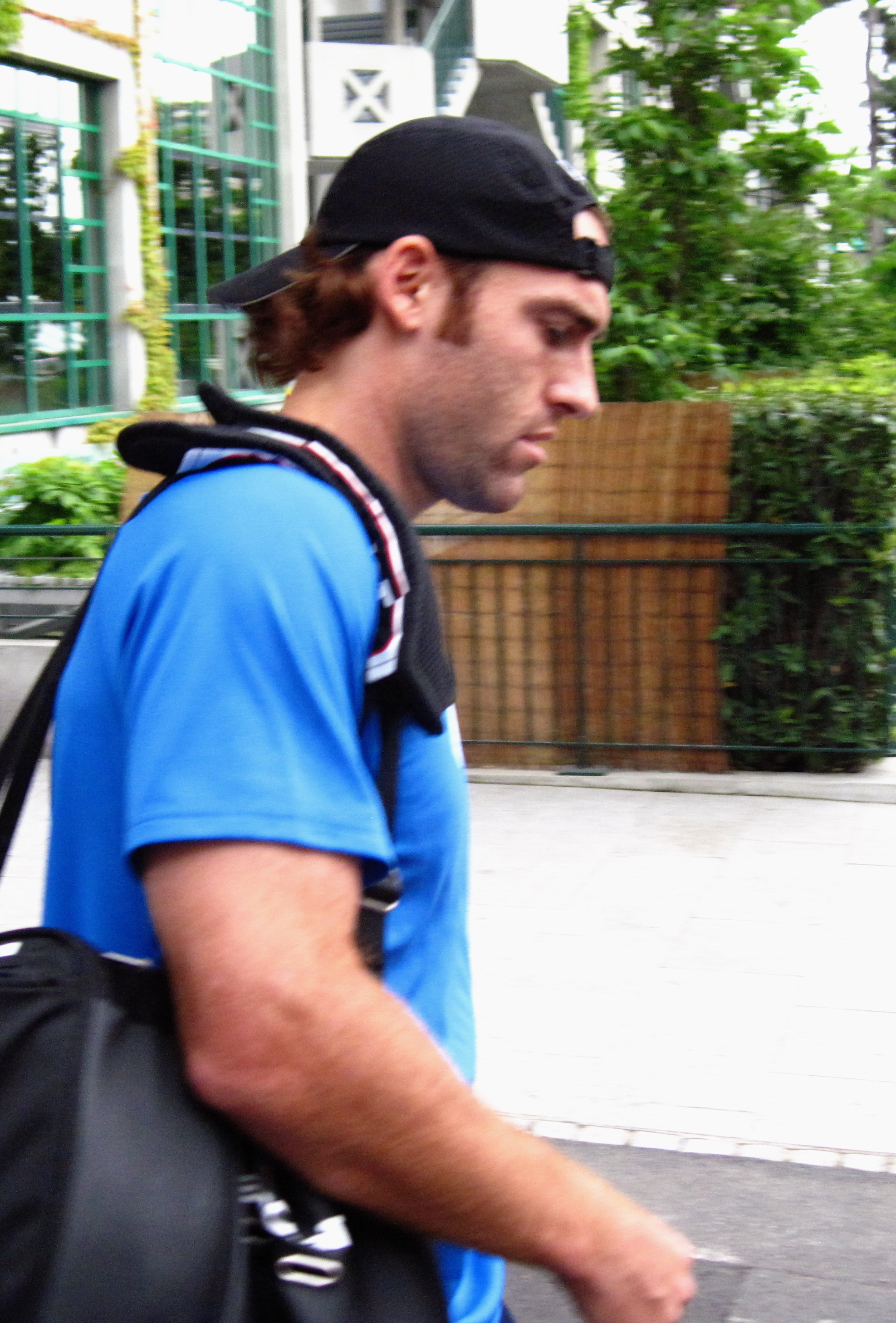 Robby Ginepri at 2009 Roland Garros, Paris, France